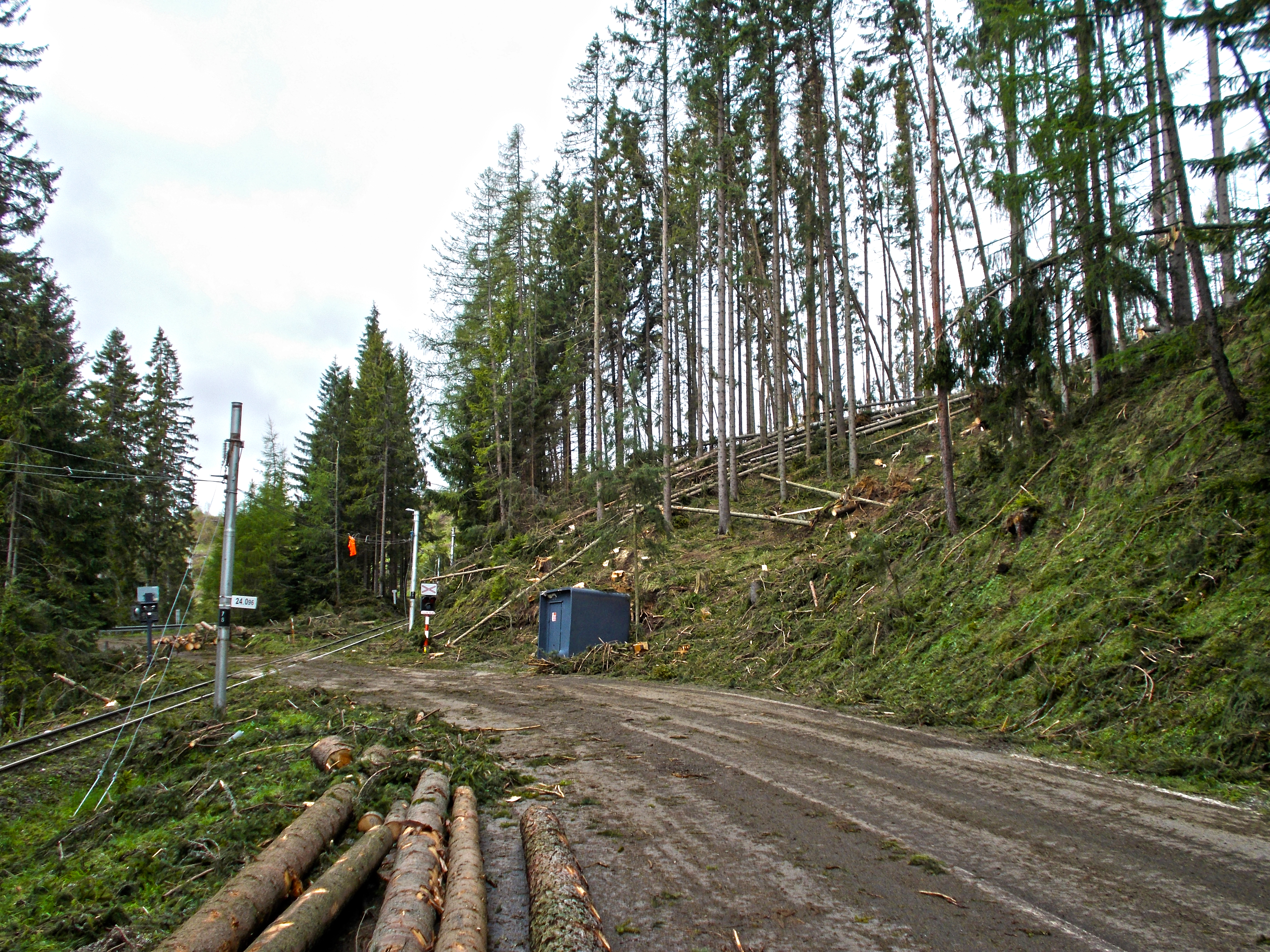 Následky víchrice z 15. mája 2014 na Ceste slobody medzi Vyšnými Hágami a Štrbským Plesom